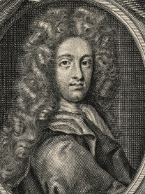 Thomas Greenhill, 1681–1740